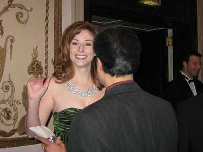 Actress Diane Neal (Law & Order SVU) at the G'Day USA 2008 Event at New York City's Waldorf-Astoria Hotel.